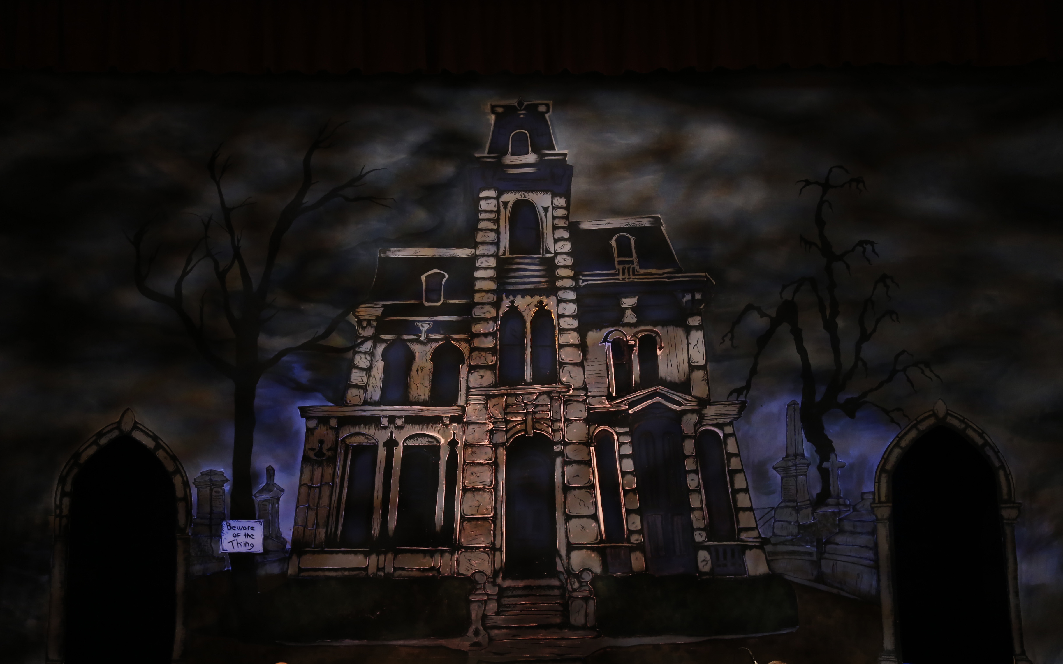 Photo by Karl Kuntz